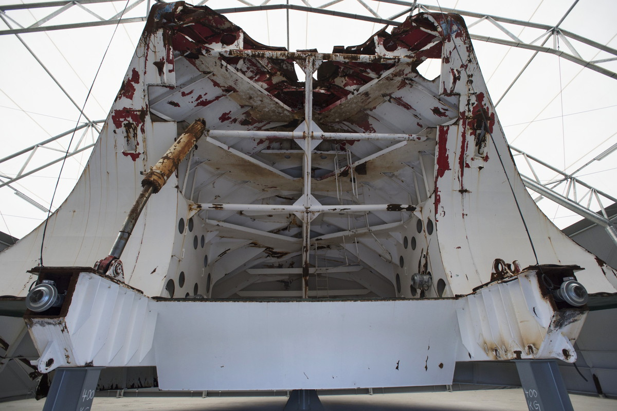 Estonias bogvisir, placerat på Muskö Örlogsbas.